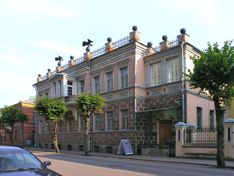 Daugavpils Local History and Arts Museum